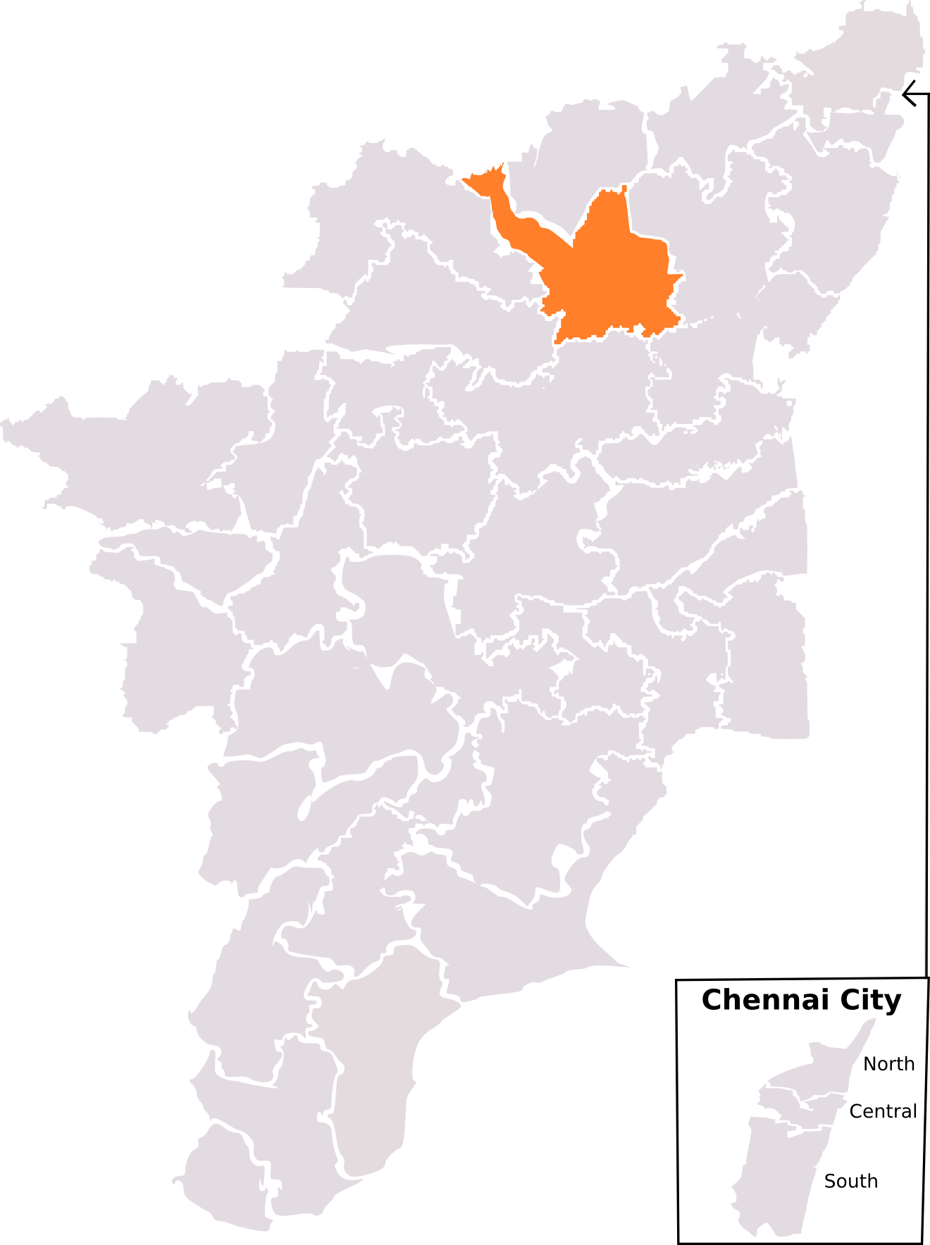 Lok Sabha Election map labeling each constituency for individual pages for Tamil Nadu after delimitation starting 2009 election. Map is based on ECI drawn map from